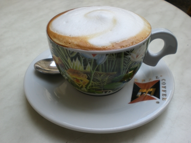 Cappuccino as being served at Ebel Café Prague